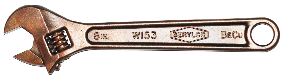 Adjustable wrench made from beryllium-copper alloy. Strong, non-sparking, non-magnetic, corrosion resistant.